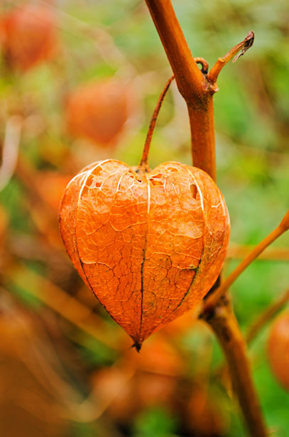 Peruvian gooseberry, gooseberry Jewish cherry, gooseberry Jewish